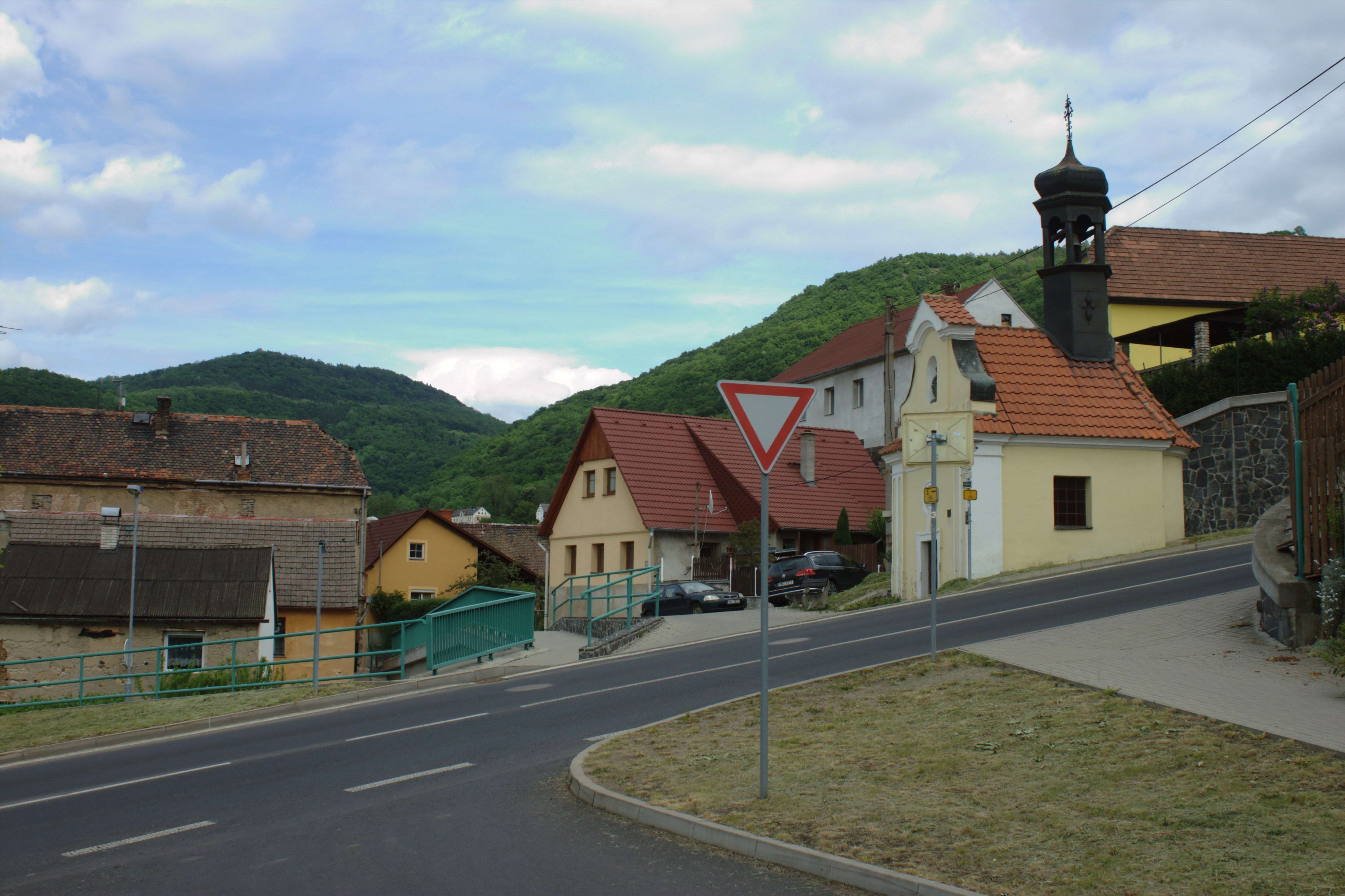 A chapel in central Sebuzín, Ustí Region, CZ